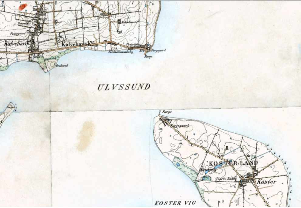 Kalvehave ferry in 19th Century